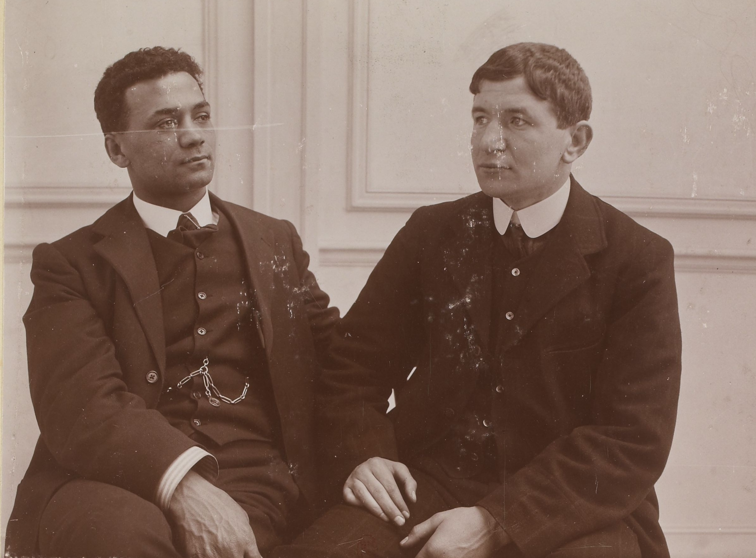 Boxers Andrew Jephta (left) and Pat O'Keeffe